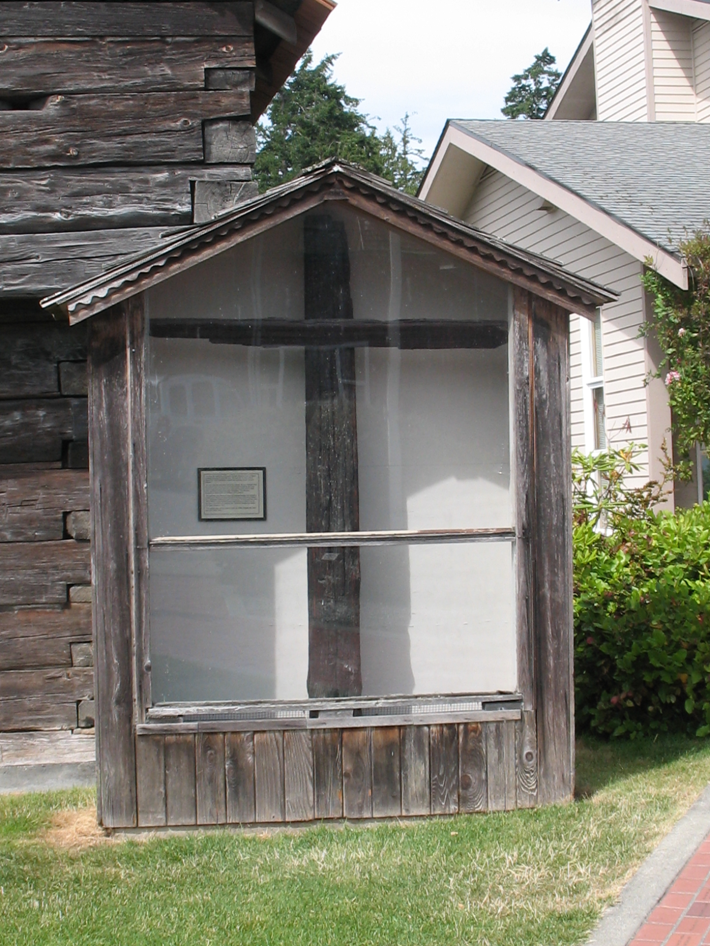 Cross of father Blanchet (1840), Coupeville, Whidbey Island